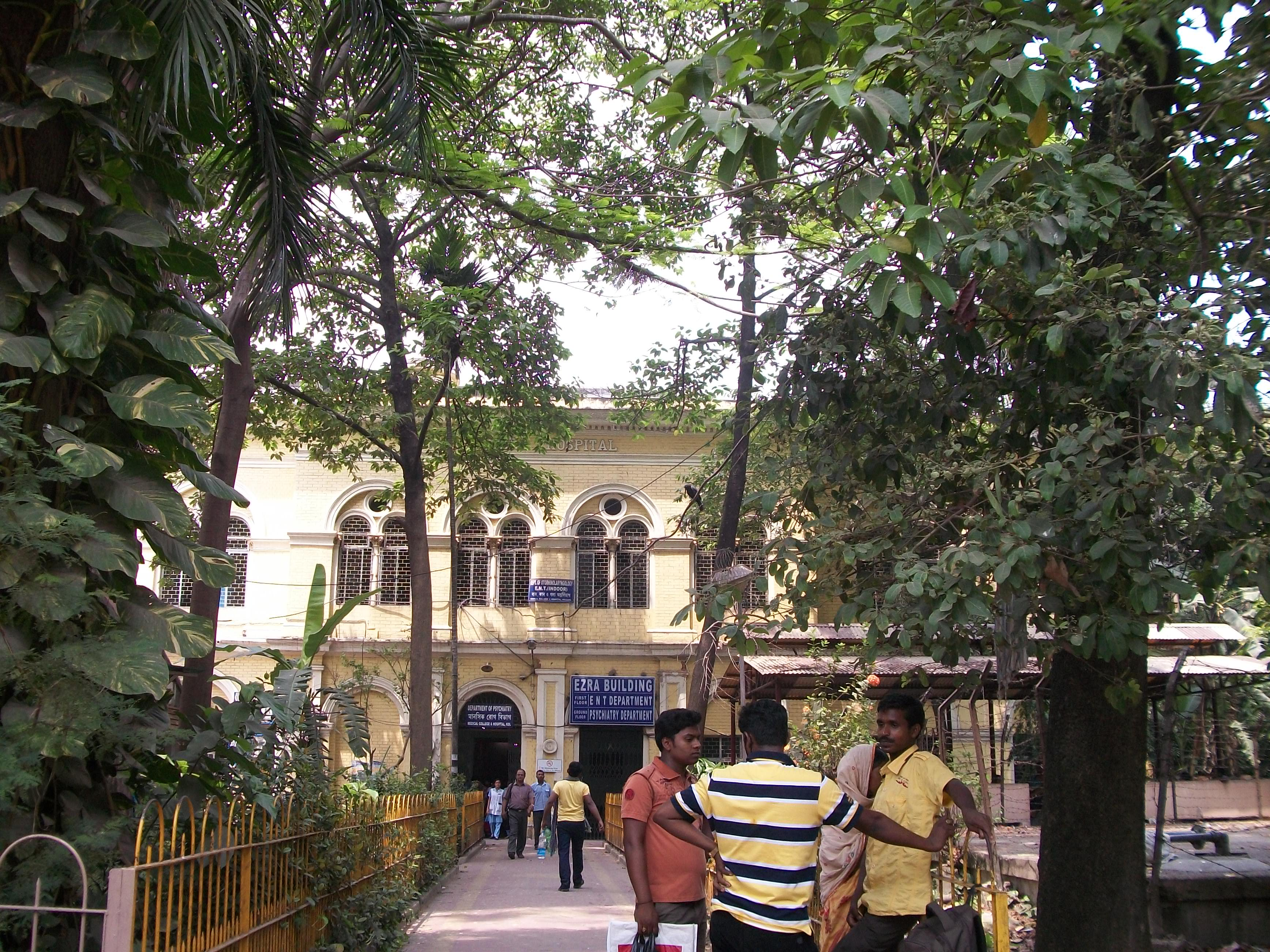 Ezra Hospital building,Calcutta Medical College/Medical College and Hospital,Kolkata